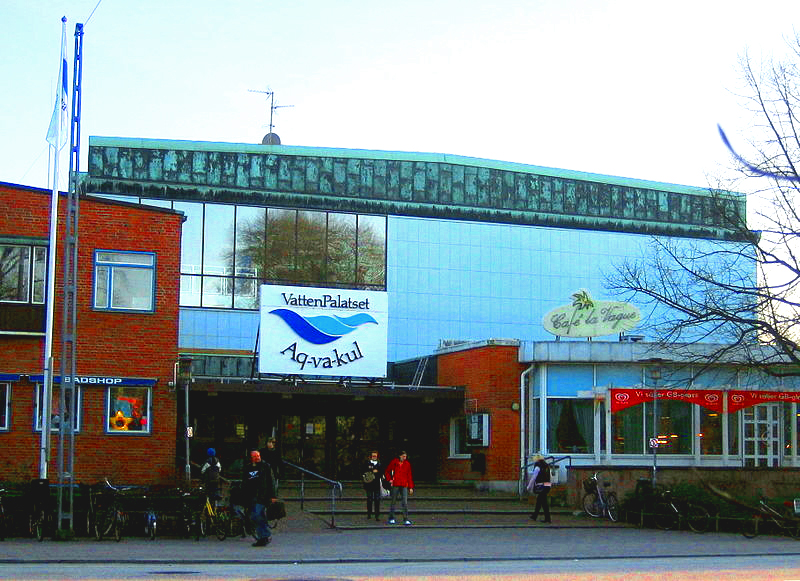 The Aq-va-kul swimming pool in Malmö, Sweden (main entrance), color-managed in Photoshop.